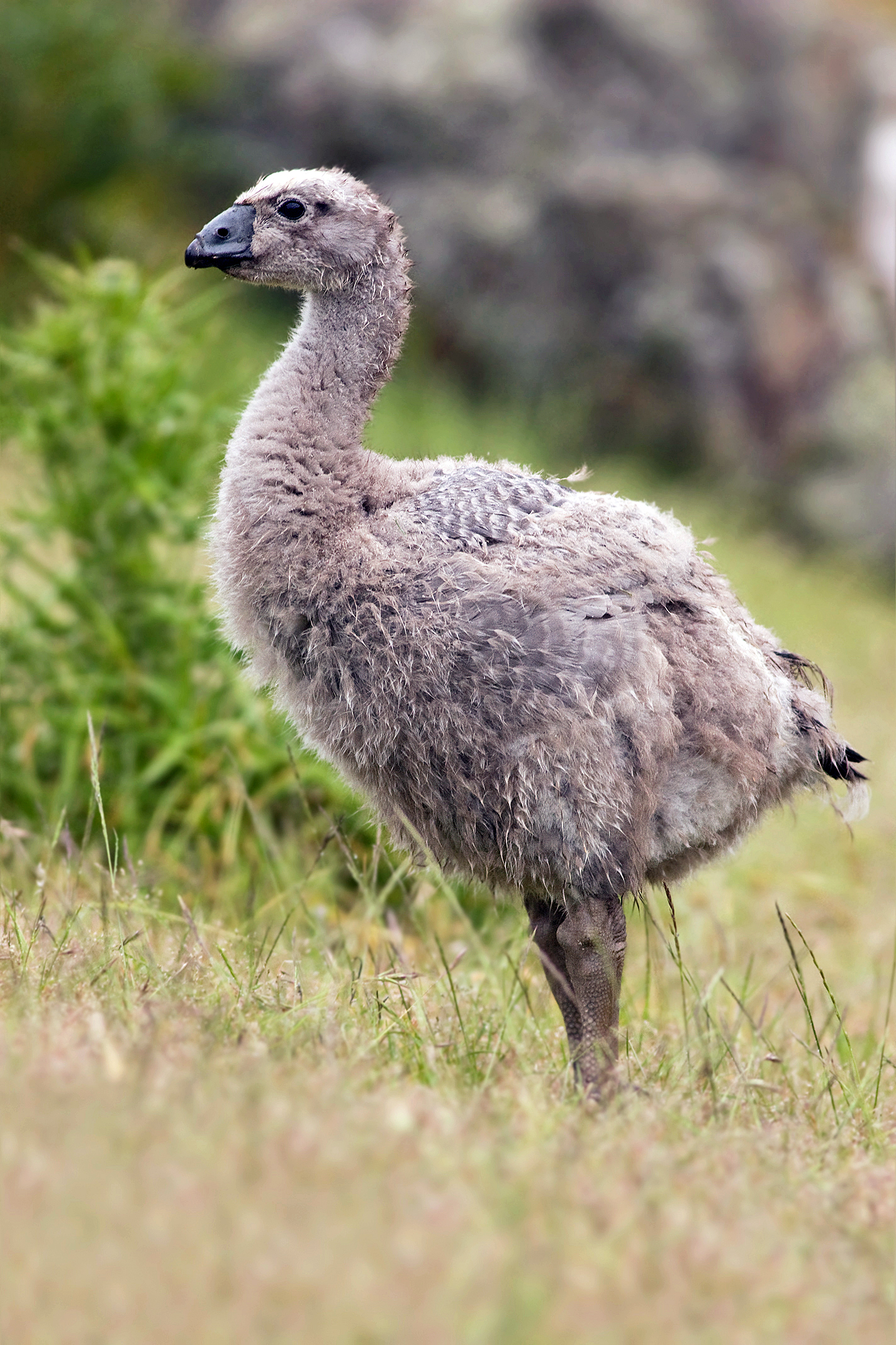 A juvenile Cape Barren Goose (Cereopsis novaehollandiae) on Maria Island, Tasmania, Australia.